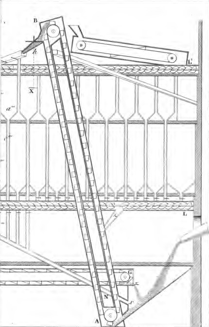 Huart granary